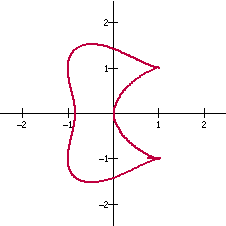 Bicuspid curve with equation (x2 − 12)(x − 1)2 + (y2 − 12)2 = 0